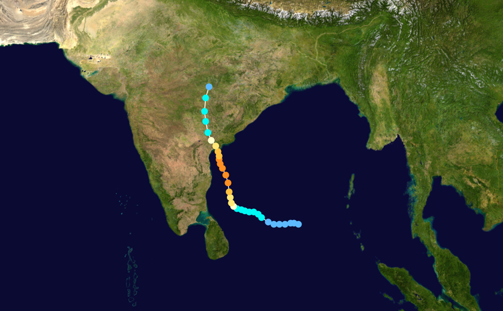 Cyclone 02B 1990 track. Uses the color scheme from the Saffir-Simpson Hurricane Scale.